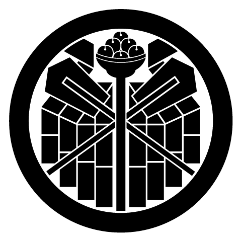 The mon (emblem) of the Suzuki family